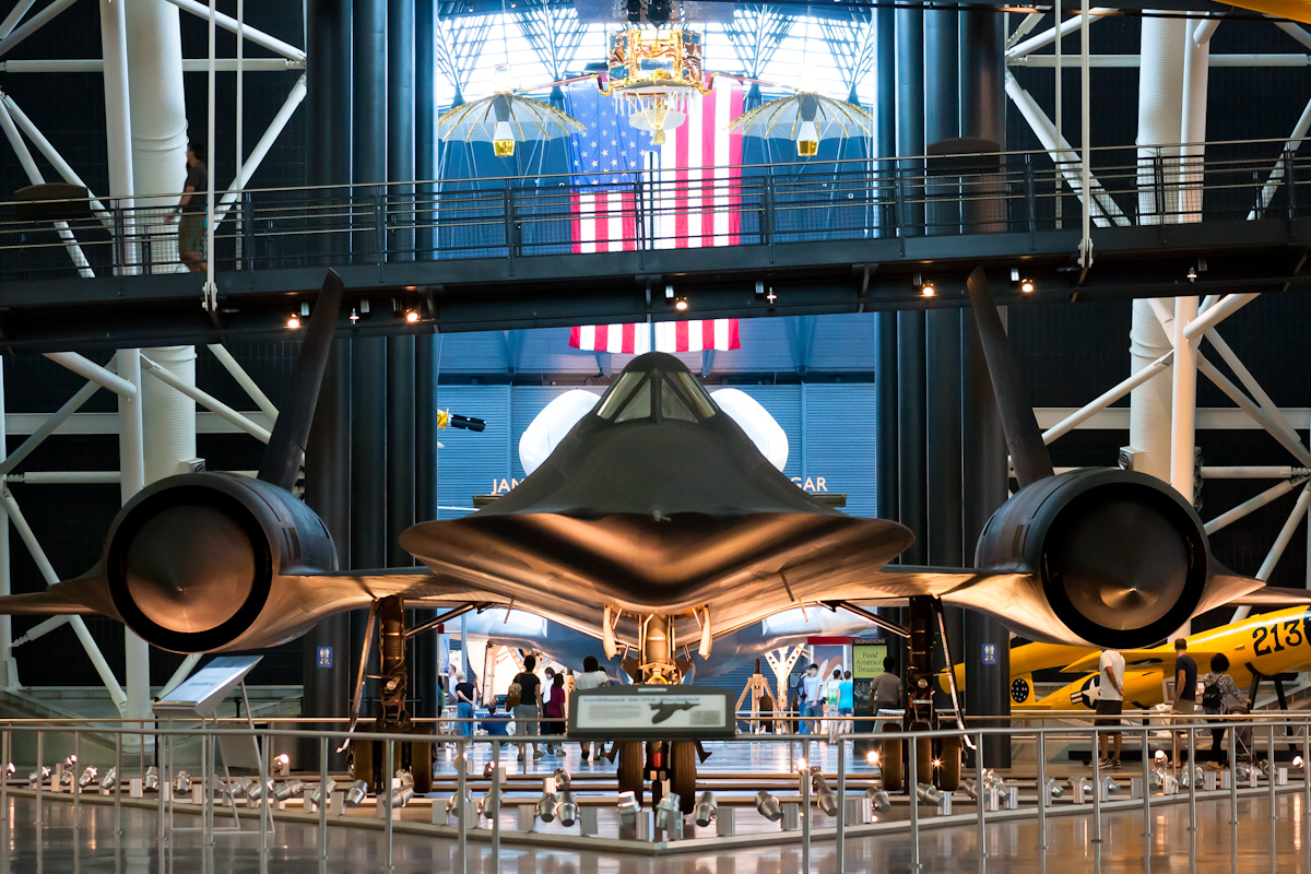 Directly behind it is the Space Shuttle Enterprise, and on the ceiling behind it is a Tracking and Data Relay Satellite (TDRS). National Air and Space Museum, Udvar-Hazy Center